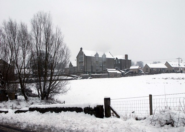 Saline Primary School and its "Sitooterie" Looks like Colditz. I'll bet that's what the primary school kids think too. However you might just be able to make out an interesting wee building in front of the main school....it's a "Sitooterie" which was formerly a toilet outbuilding. [Sitooterie: noun (Scottish origin): A structure to sit out in - a quiet haven for contemplation.] Another interesting one. Sitooterie II (Heatherwick Studio)